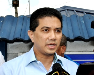 MP of Gombak And State Assemblyman for Bukit Antarabangsa